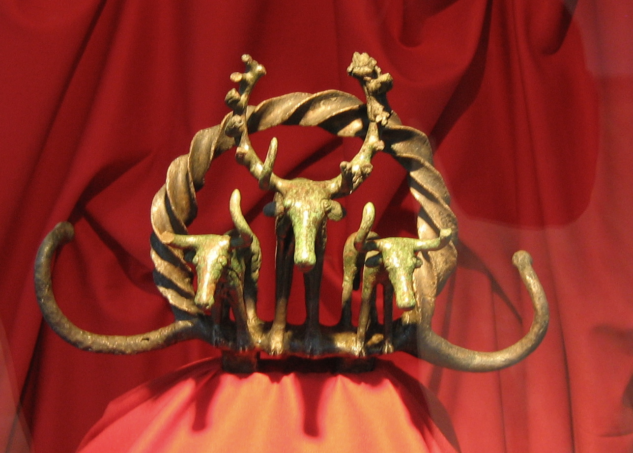 From Alacahöyük, displayed in the Anatolian Civilizations Museum in Ankara. There's a giant version of this thing in downtown Ankara, and I understand it's used as a general symbol for Turkish tourism.